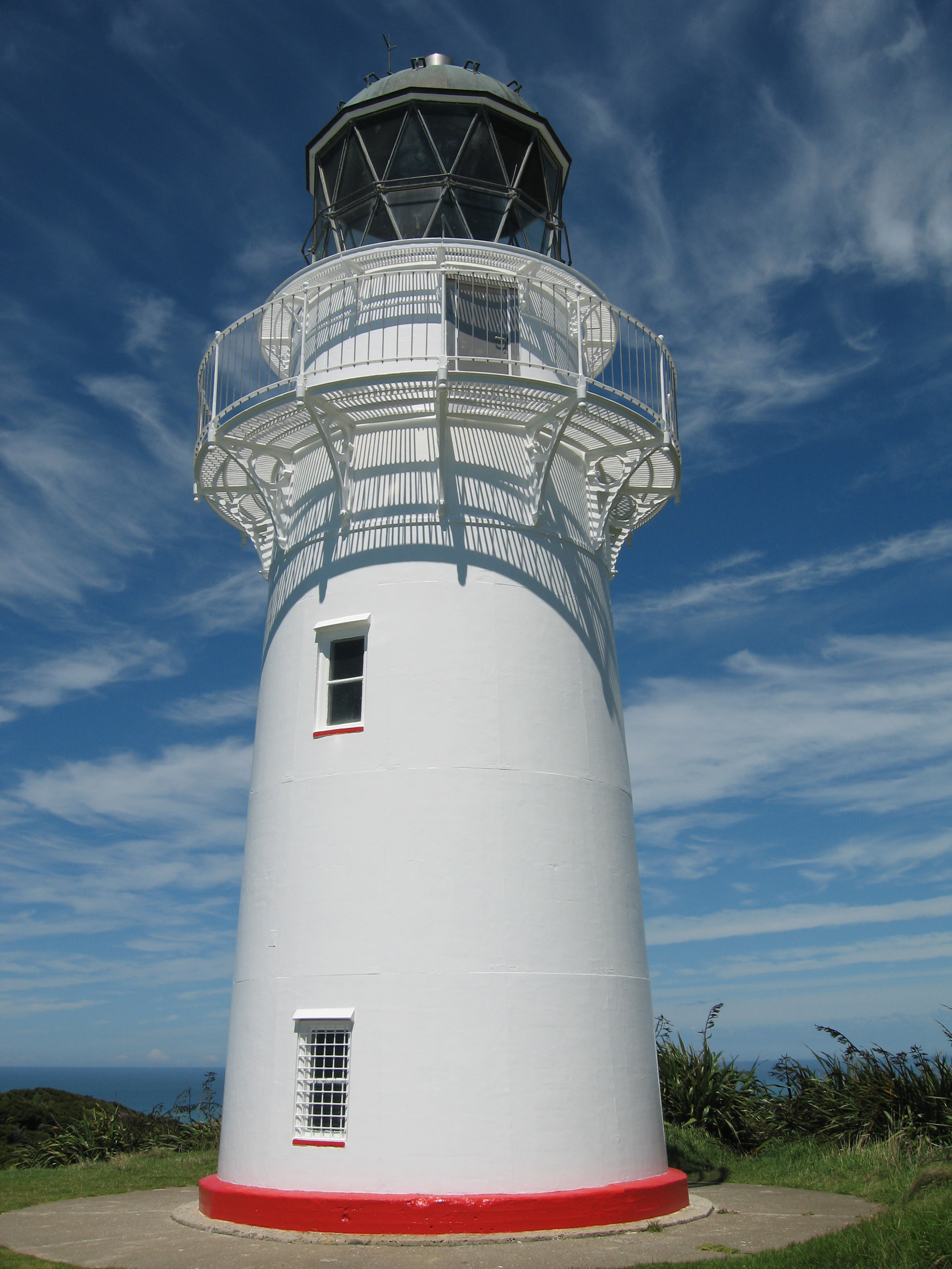 East Cape Lighthouse, near Gisborne in New Zealand.